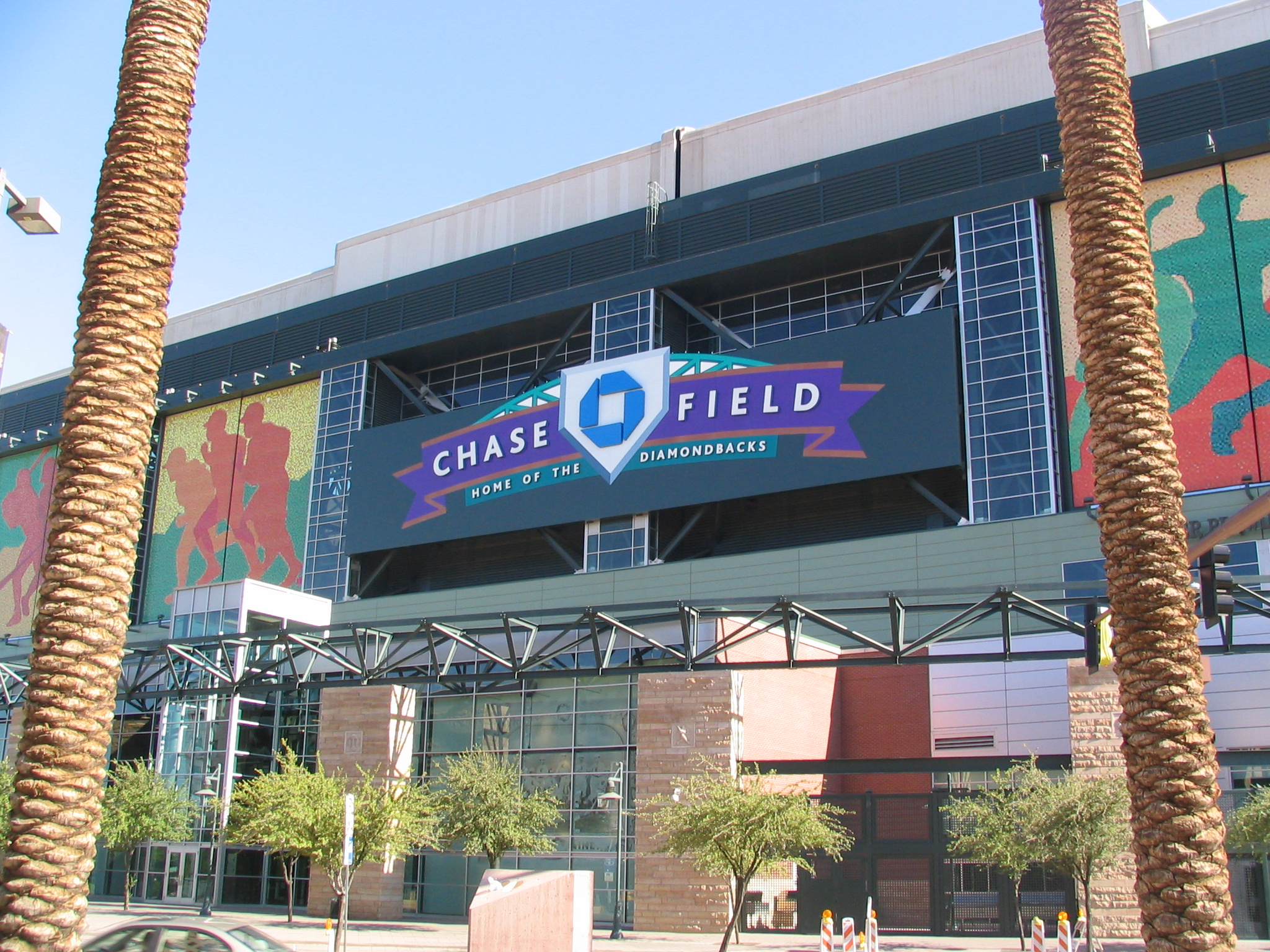 Chase Field, August 2006. Taken by metsfan84. 03:07, 5 July 2007 . . metsfan84 . . 2048×1536 (1,147,395 bytes)